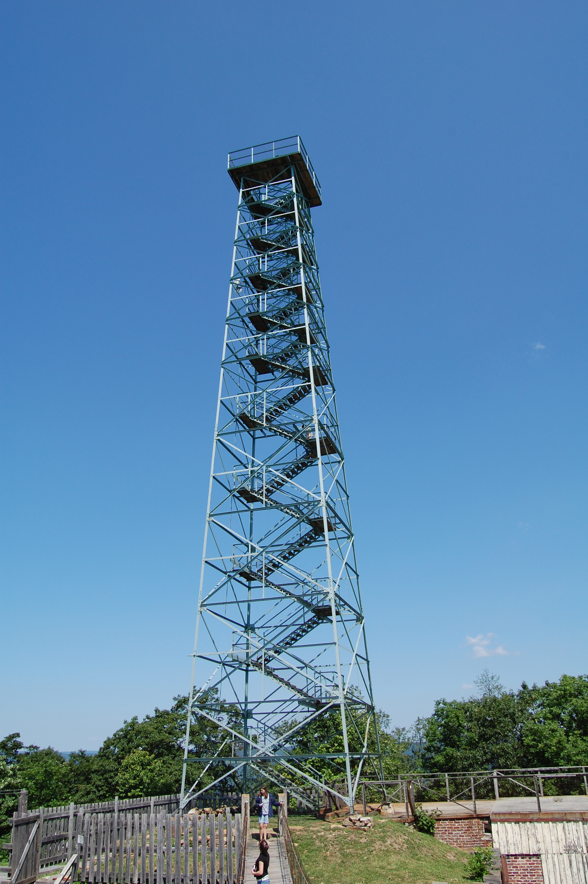 Big Walker Lookout on June 18, 2008